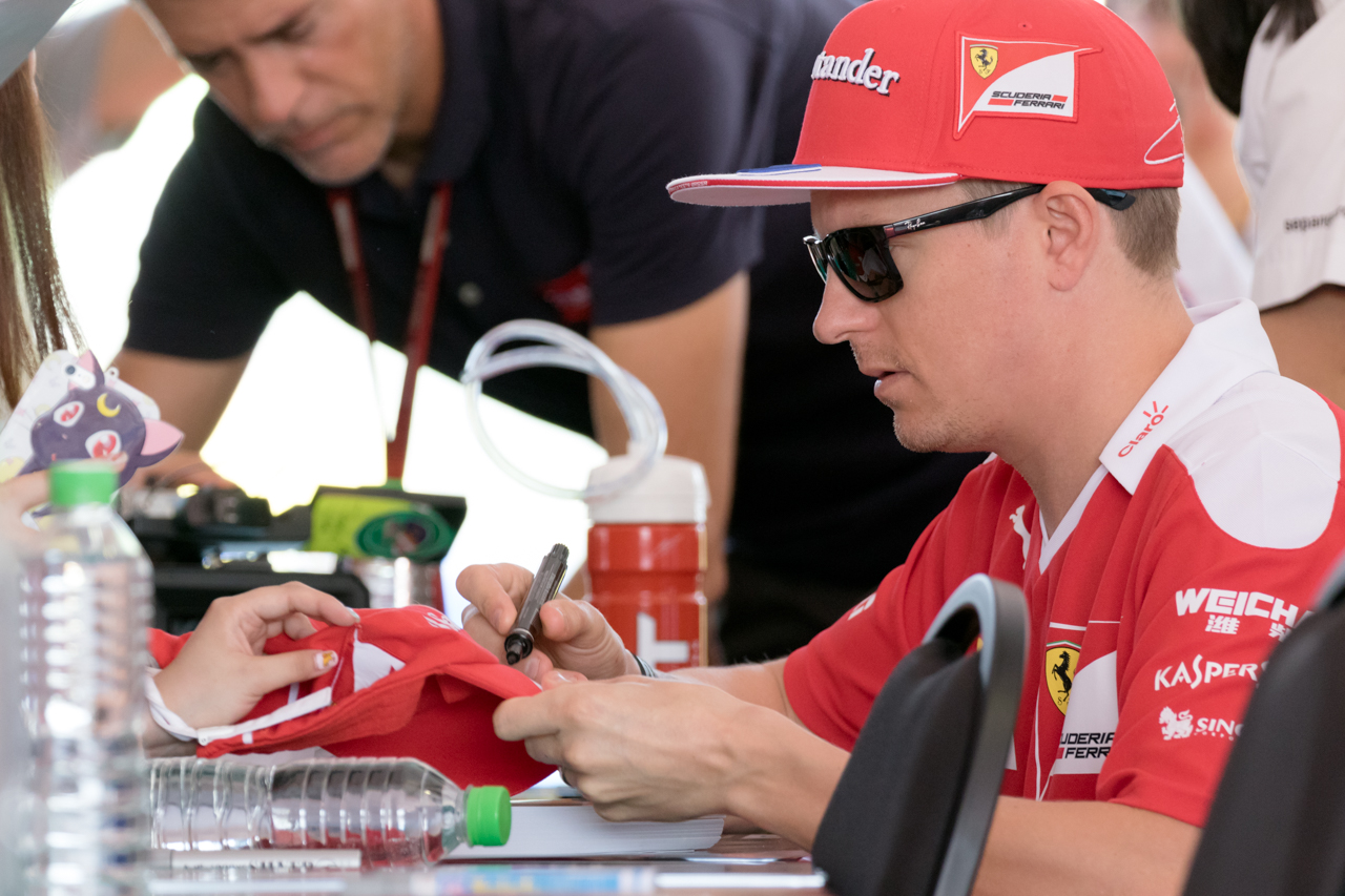 Formula One 2016 Rd.16 Malaysian GP: Kimi Räikkönen (Ferrari)